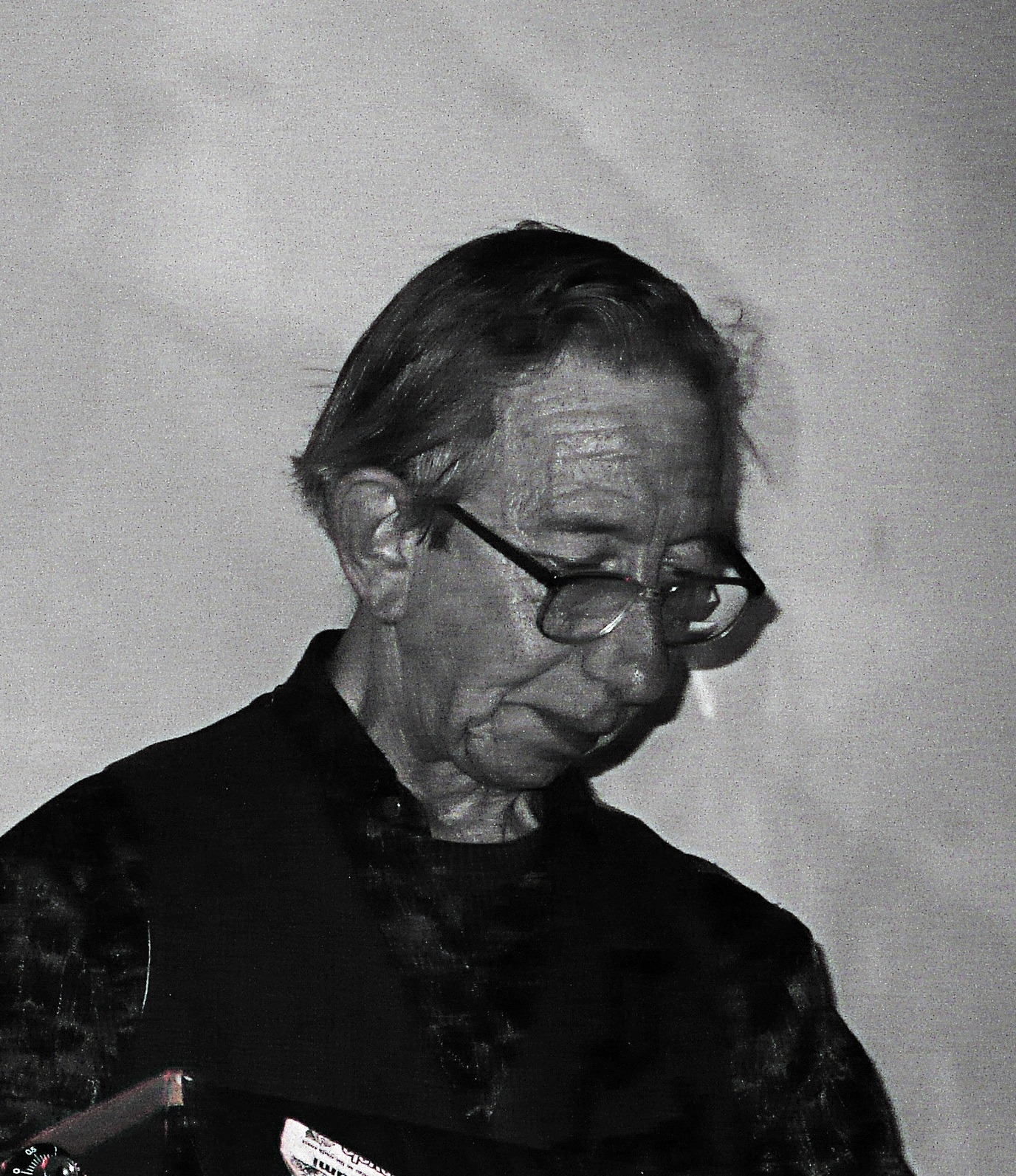 Cropped from File:DJ Derek in 2007.jpg